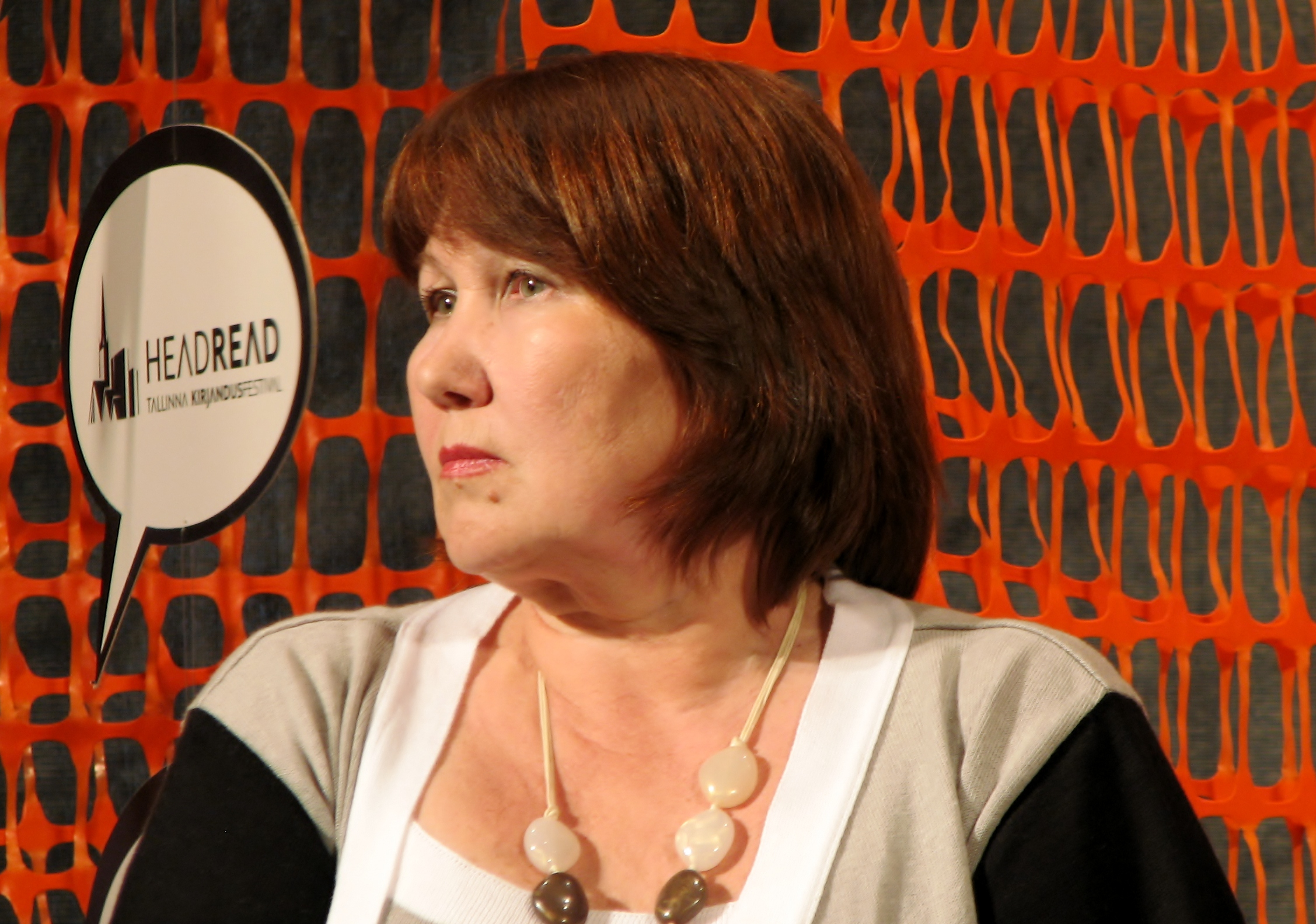 Albertina Petrovna Ivanova performing in HeadRead festival